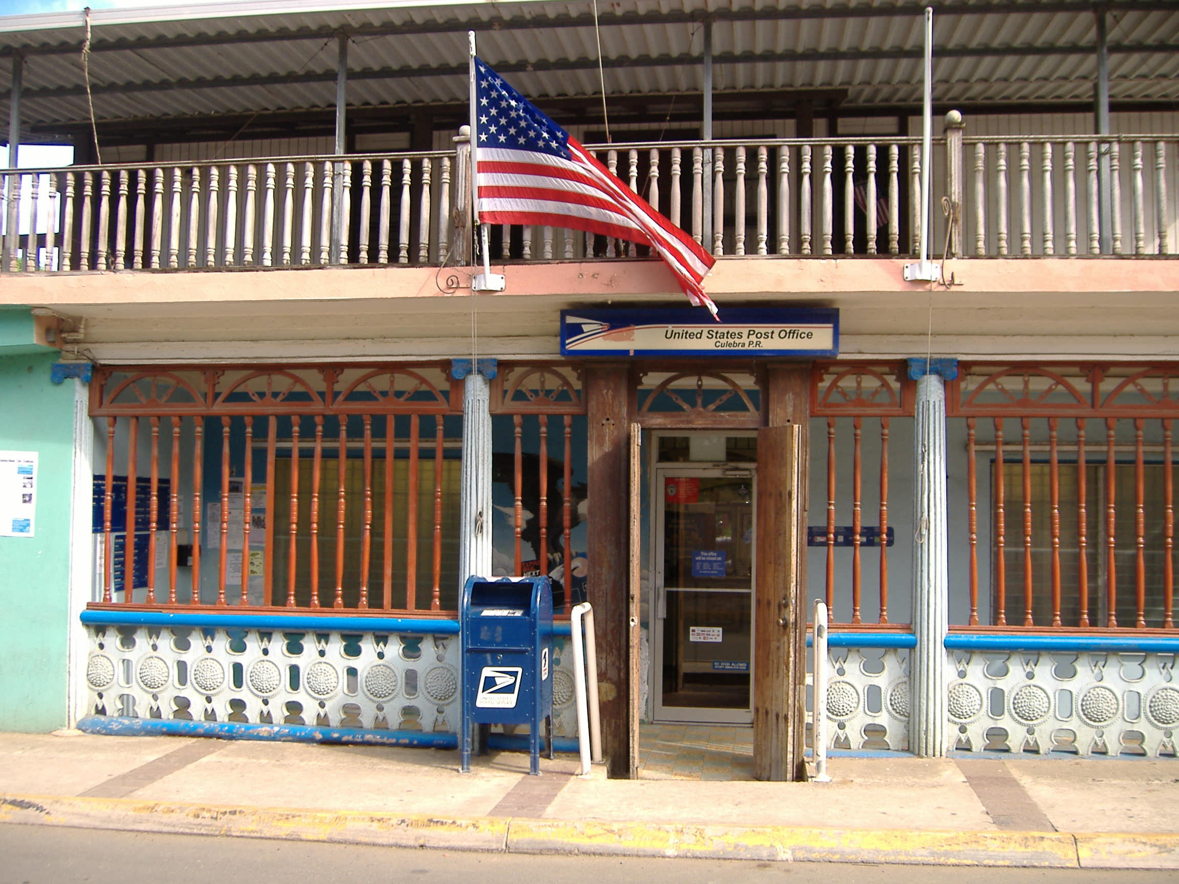 US Postal Office in Culebra, Puerto Rico.